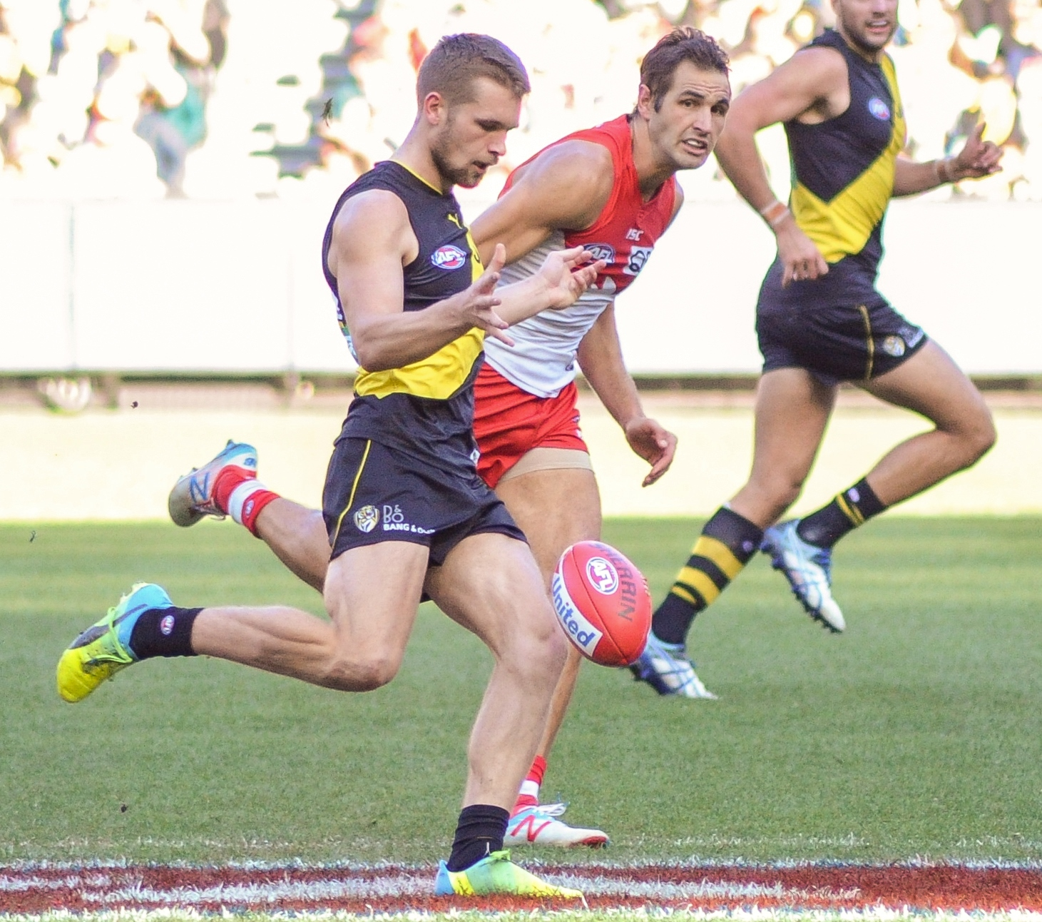 Dan Butler kicking during the AFL round thirteen match between Richmond and Sydney on 17 June 2017 at the Melbourne Cricket Ground in Melbourne, Victoria.